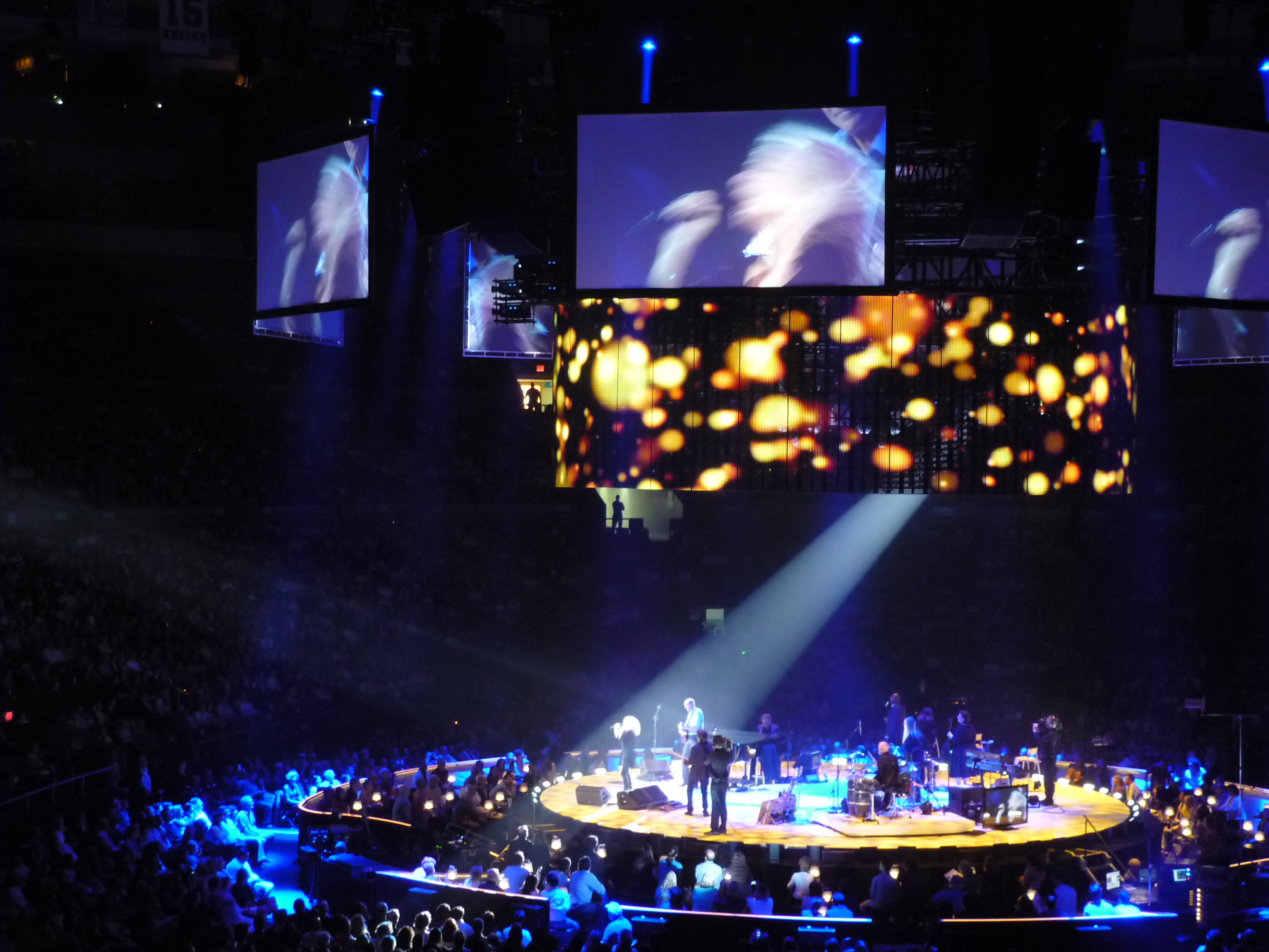 "(You Make Me Feel Like) A Natural Woman" being performed by Carole King (far left on stage) as the final song of the first set during one of her Troubadour Reunion Tour shows with James Taylor. Madison Square Garden, New York.